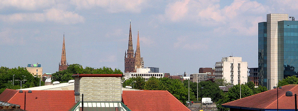 The skyline of Coventry, England. View from the footbridge over the railway by the Central 6 shopping Centre. The three old spires of Coventry are Holy Trinity (left), remaining spire of the ruined (bombed) cathedral and the remaining spire of the ruined Christ Church (right).